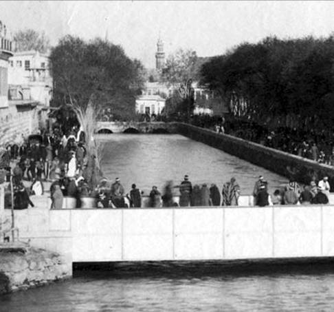 Crowds gathered on Victoria Bridge in Damascus in the 1870s on the banks of the River Barada, probably on a Friday. This bridge was removed in 1925 as was the hotel